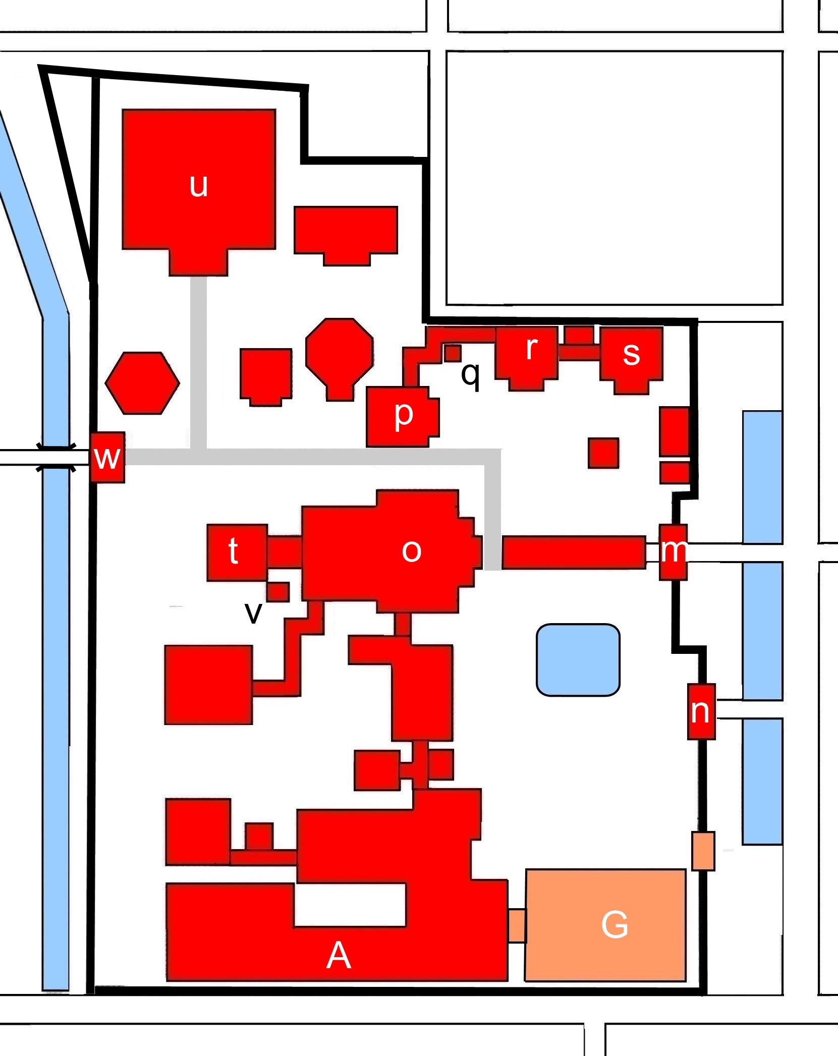 Layout of Zentsû-ji Temple - Sai-in